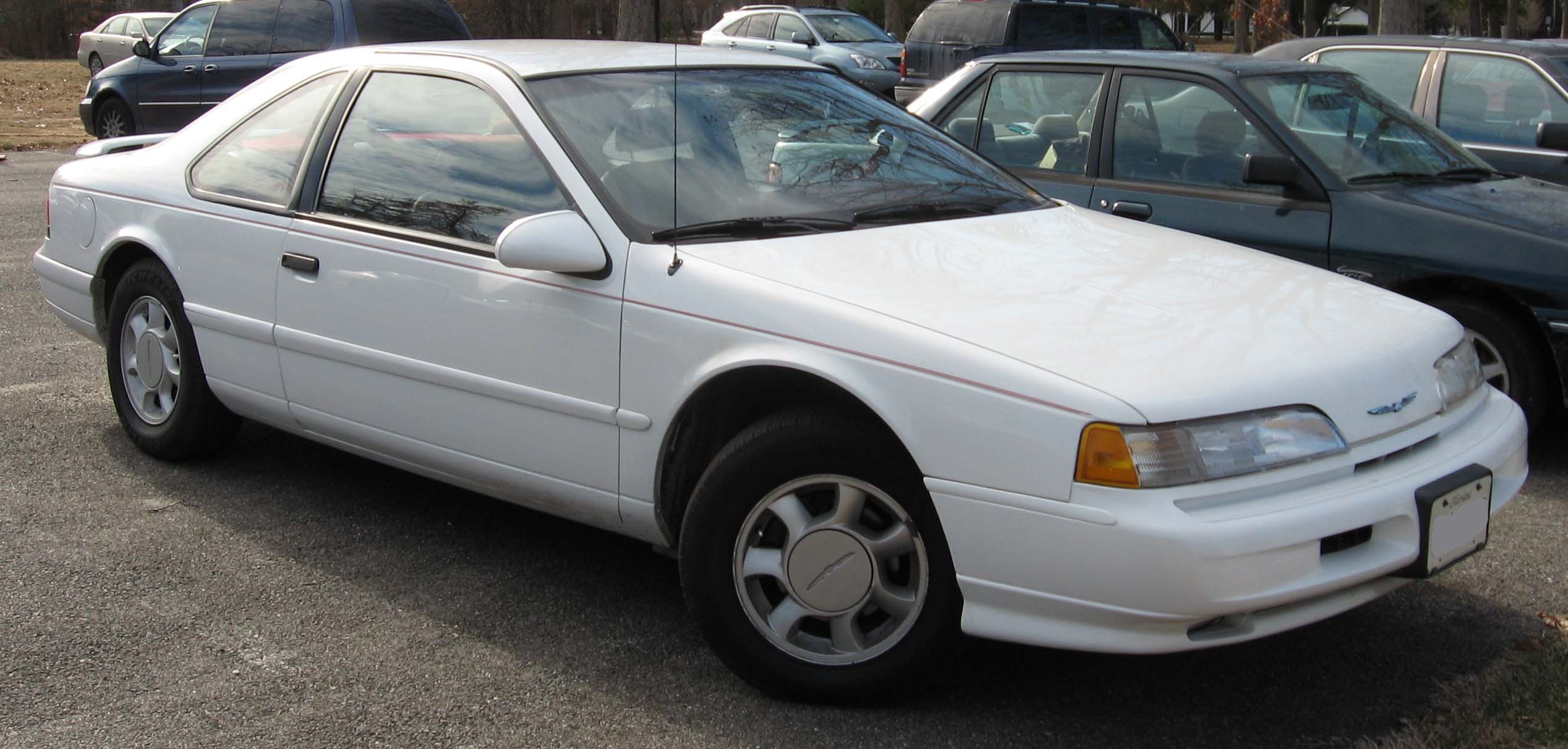 A 1993 Ford Thunderbird photographed in USA.